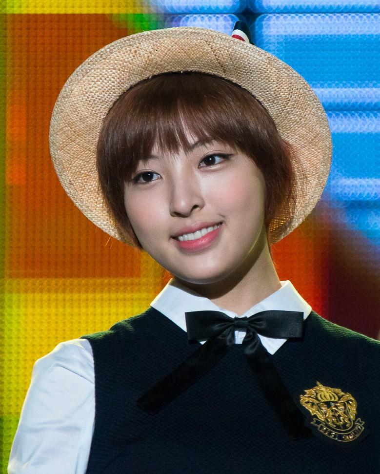 Jin Hye-won at Show Music Core Chuseok Special, 14 September 2013